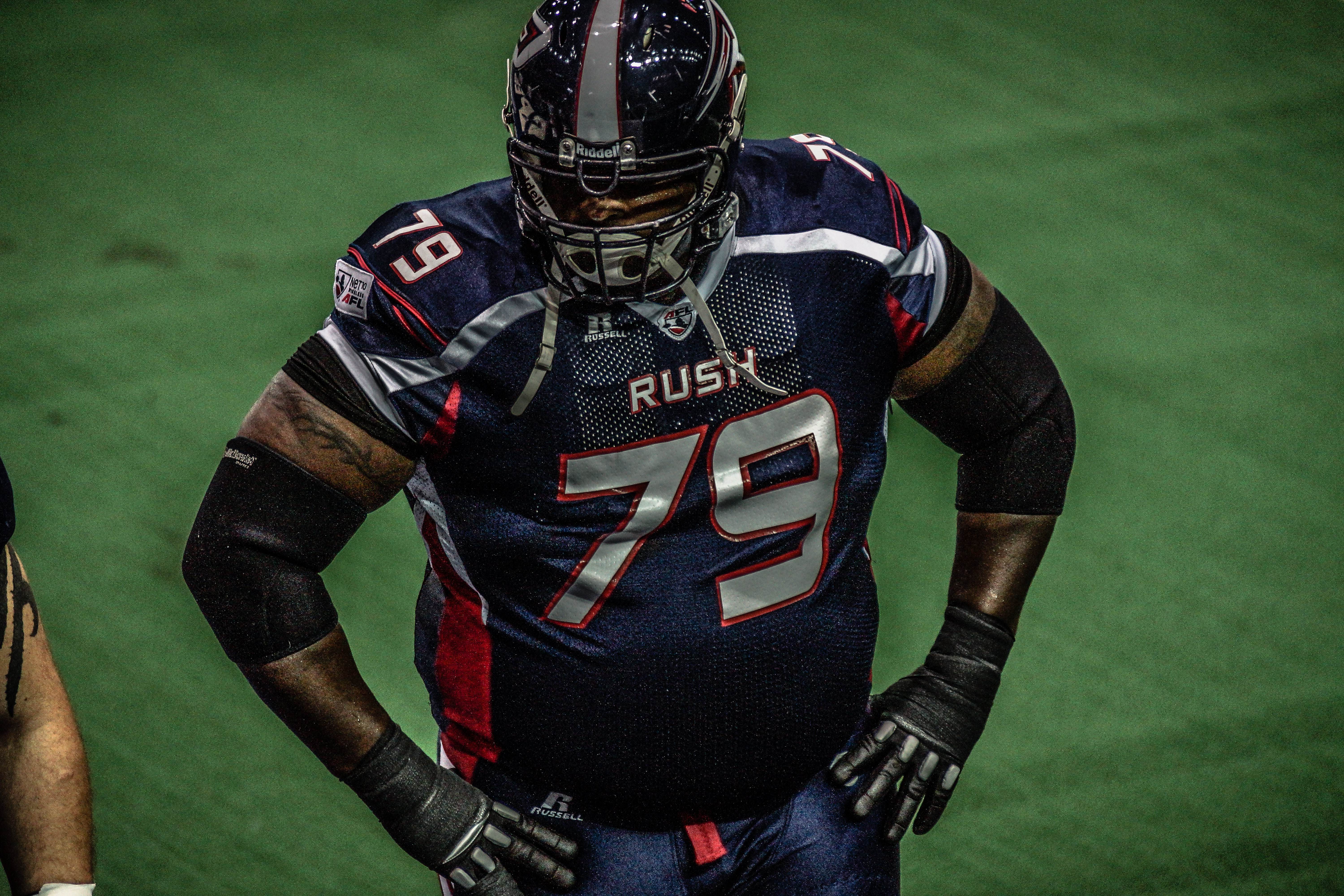 Guard/Tackle Steve Edwards number 79 of the Chicago Rush